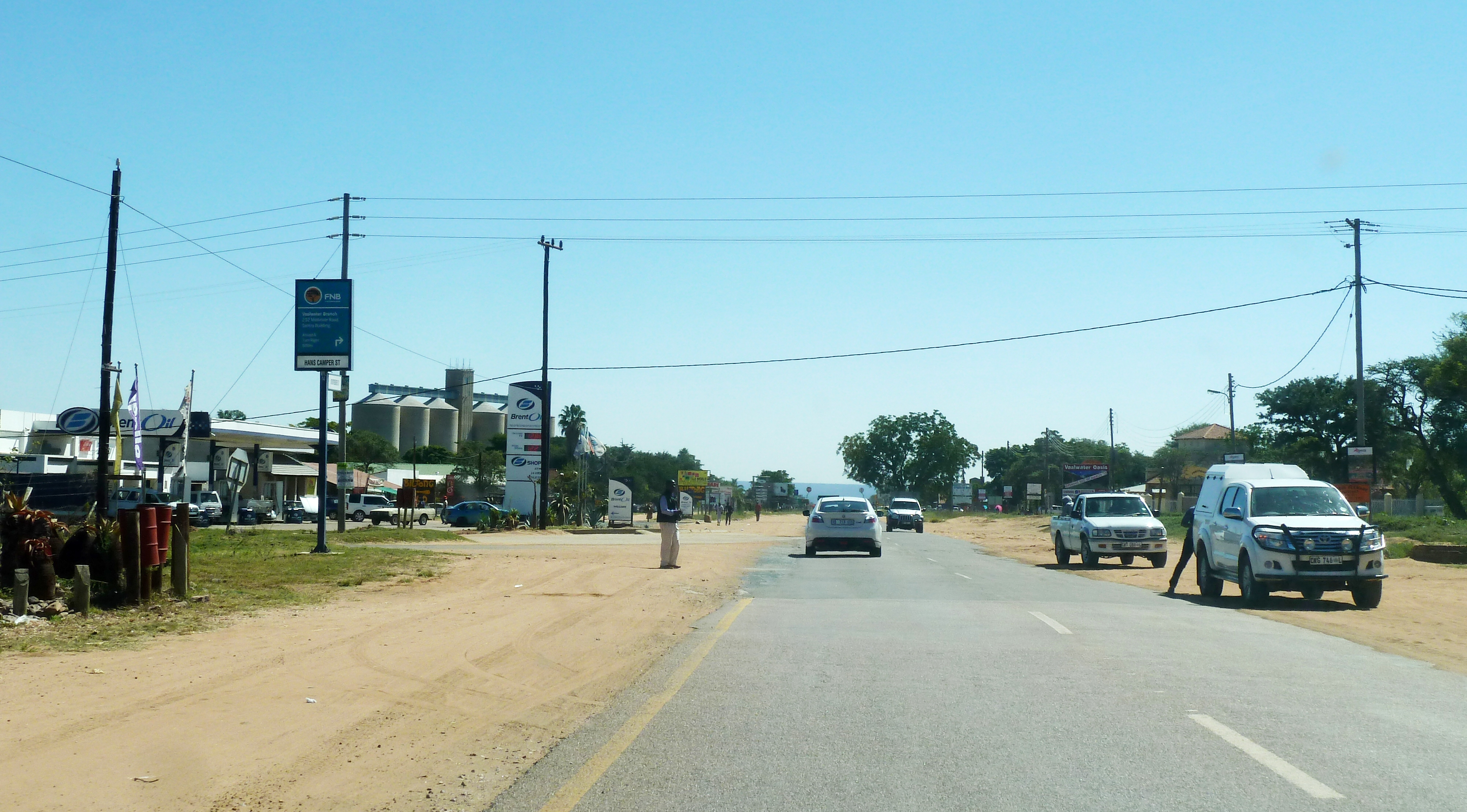 R517 in Vaalwater, Limpopo, South Africa